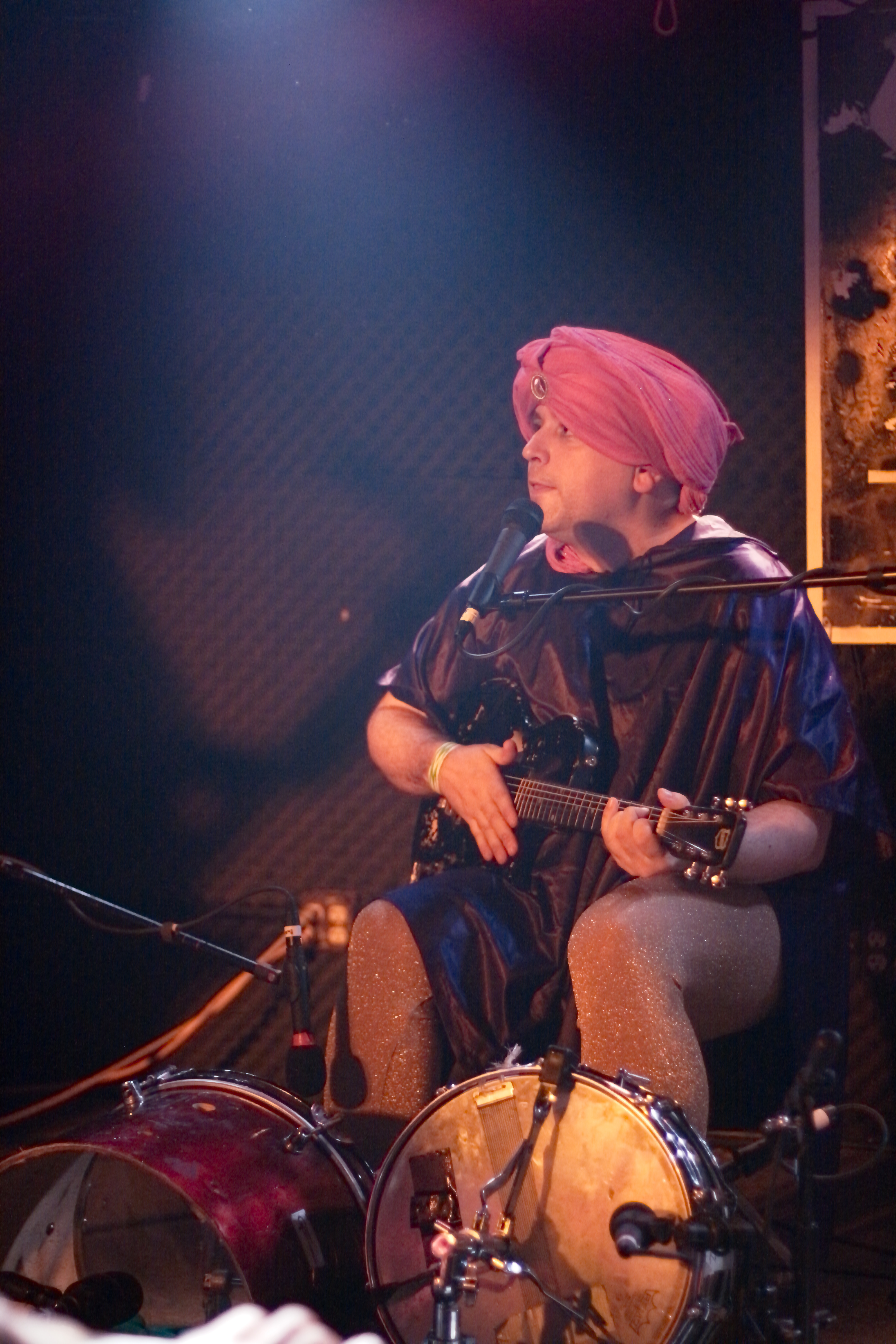 BBQ contributes vocals, guitar, tambourine, bass drum, and snare drum, while King Khan provides lead guitar and vocals.